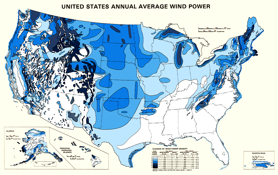 Map showing estimated wind resources for the United States.